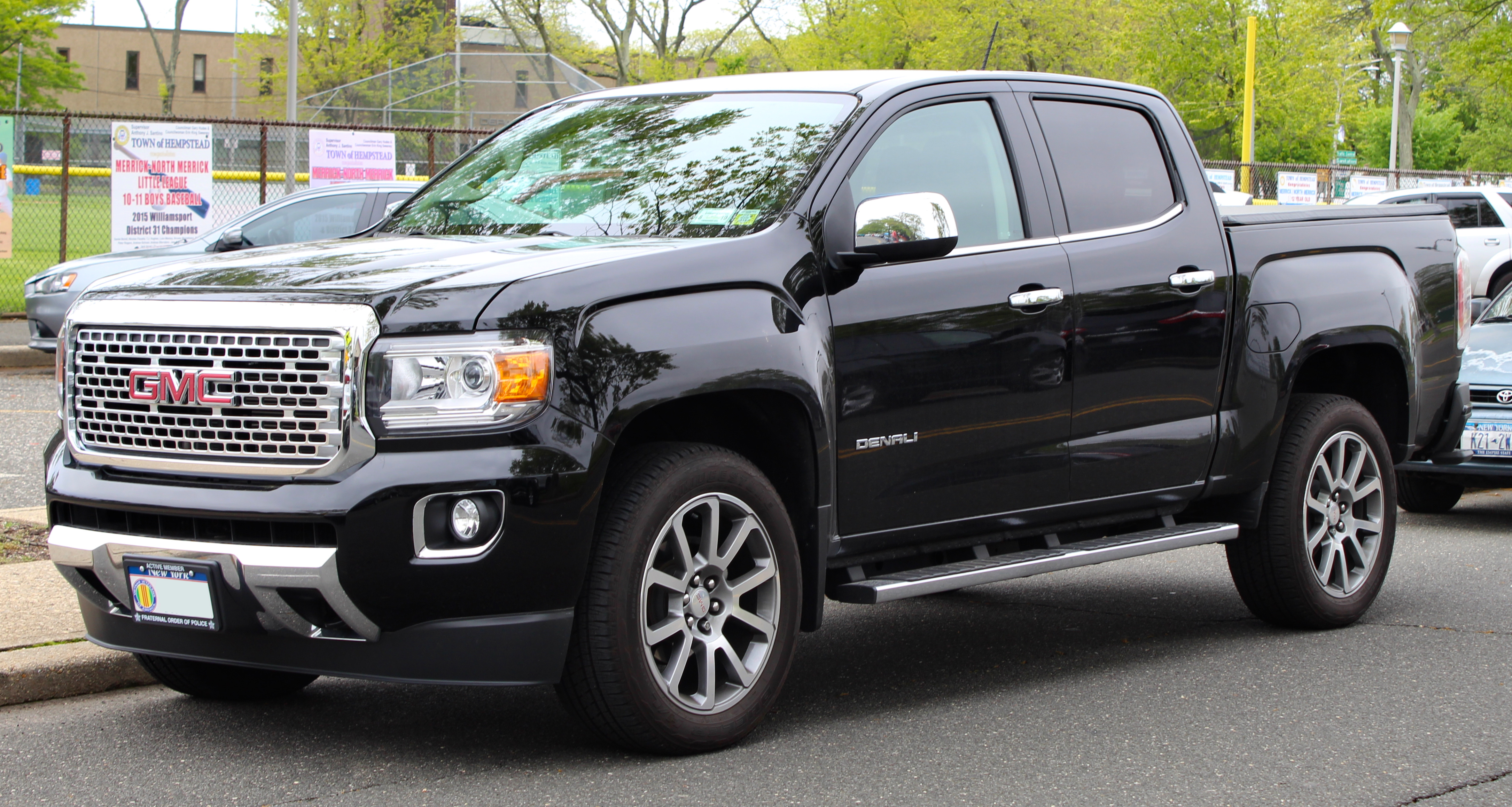 A 2018 GMC Canyon Denali photographed at Merrick, New York, USA